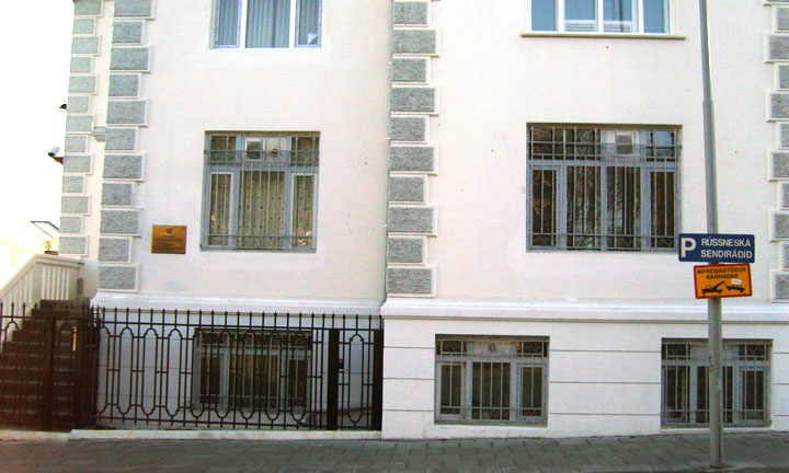 Embassy of the Russian Federation in Reykjavik, Iceland.